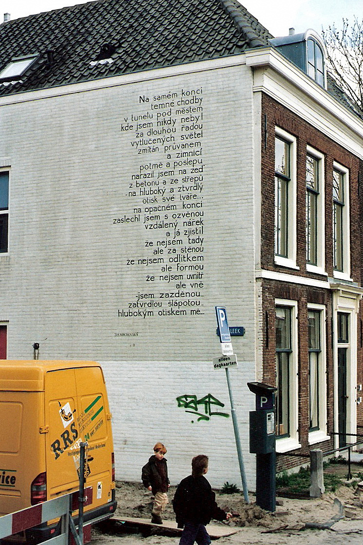 Wallpoem 'Na samém konci' by J.H. Krchovský, Ververstraat 10, Leiden.jpg